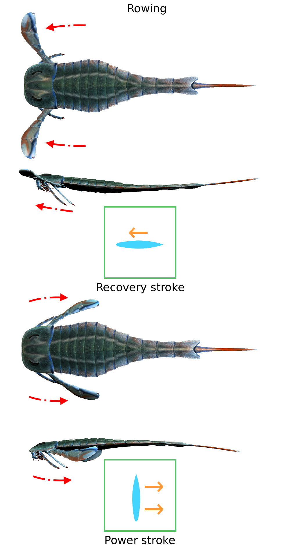 Illustration of rowing in Eurypterus in which the paddles are used to 'push' back at the water to propel the animal forward.